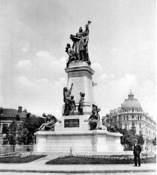 Original monument to I. C. Brătianu, sculptor E. H. Dubois unveiled in Bucharest in 1903, removed in 1948 by communist regime